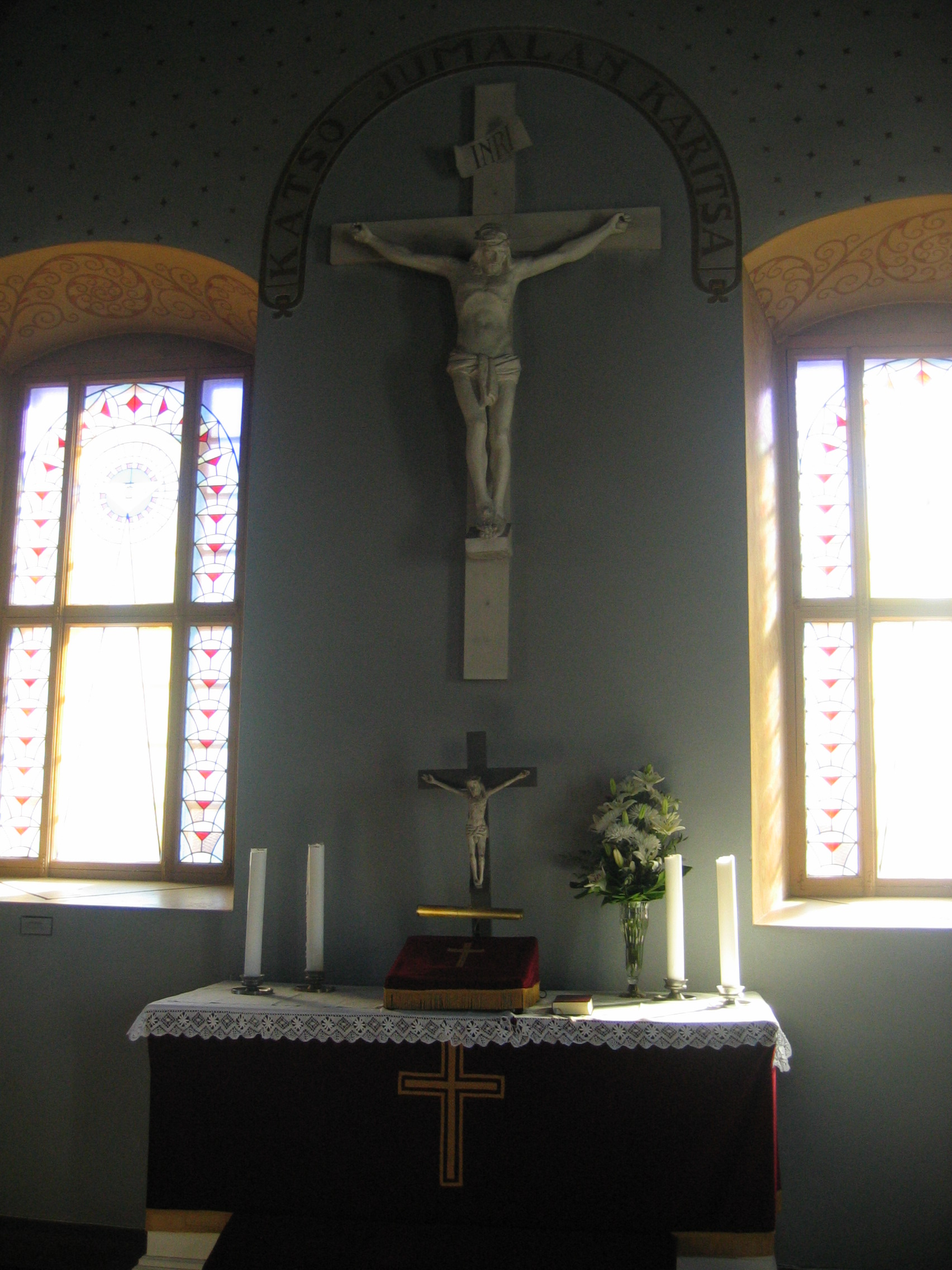 The altar of Mietoinen church, Finland